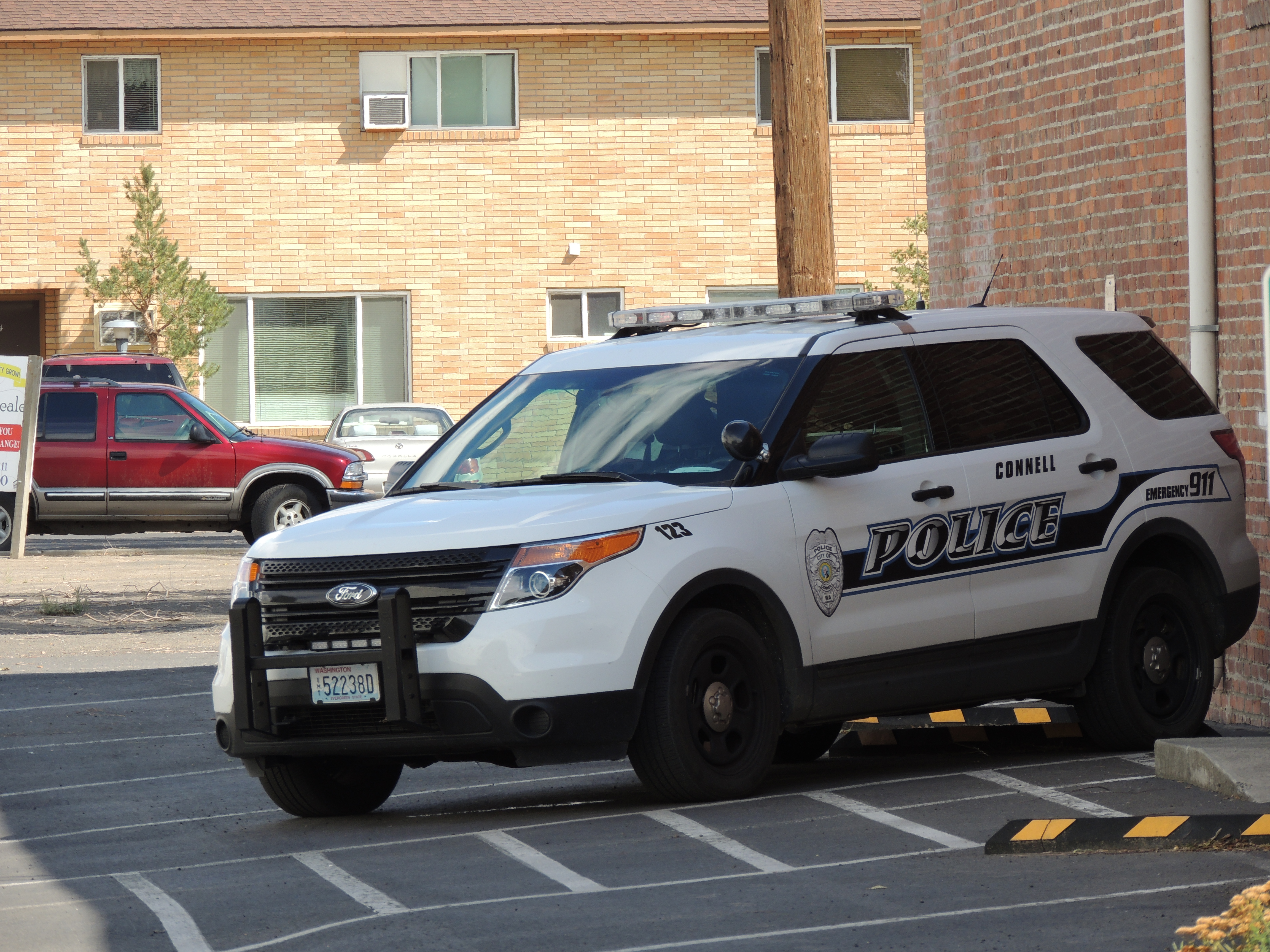 New Connell Wa Police ride